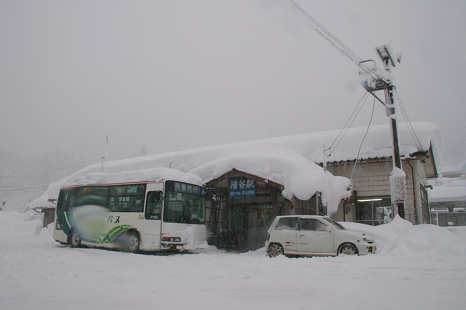 Inotani Station